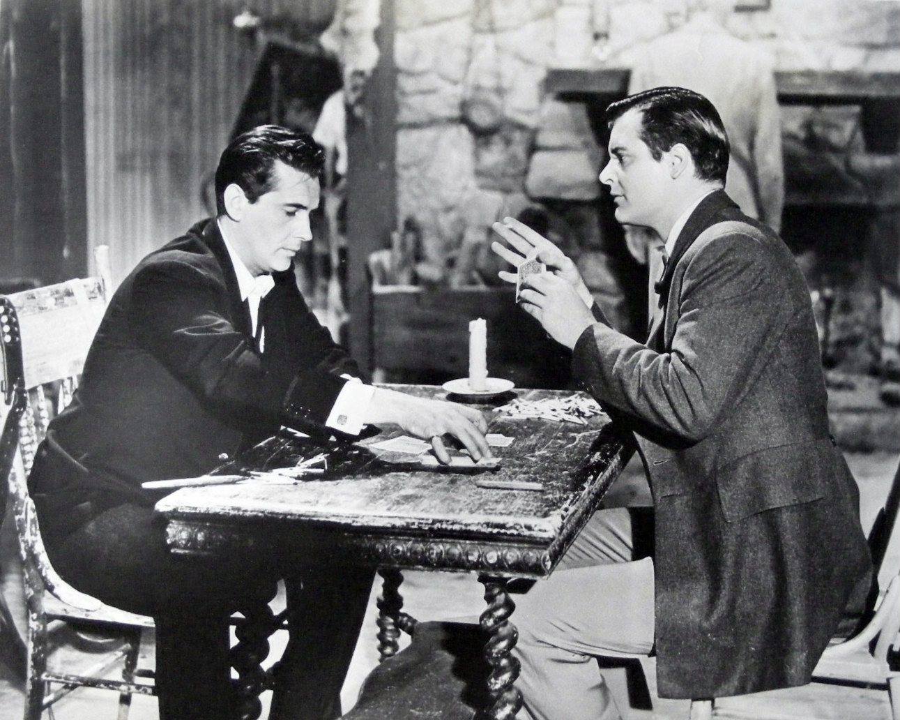 Photo of Jack Kelly (Bart Maverick) and Richard Long (Gentleman Jack Darby) from the television program Maverick.